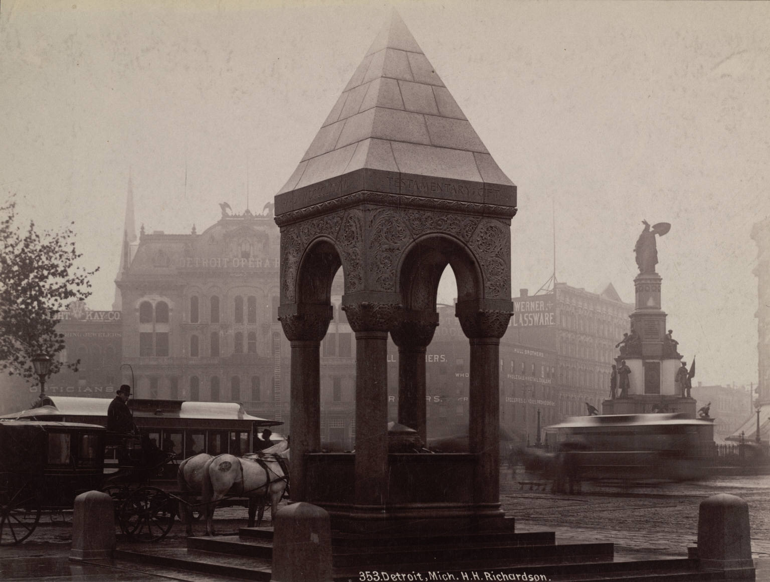 Collection: A. D. White Architectural Photographs, Cornell University Library Accession Number: 15/5/3090.00203 Title: Bagley Fountain Architect: Henry Hobson Richardson (American, 1838-1886) Photograph date: ca. 1887-ca. 1895 Building Date: 1887 Location: North and Central America: United States; Michigan, Detroit Materials: albumen print Image: 5 7/8 x 7 3/4 in.; 14.9225 x 19.685 cm Provenance: Transfer from the College of Architecture, Art and Planning Persistent URI: There are no known U.S. copyright restrictions on this image. The digital file is owned by the Cornell University Library which is making it freely available with the request that, when possible, the Library be credited as its source. We had some help with the geocoding from